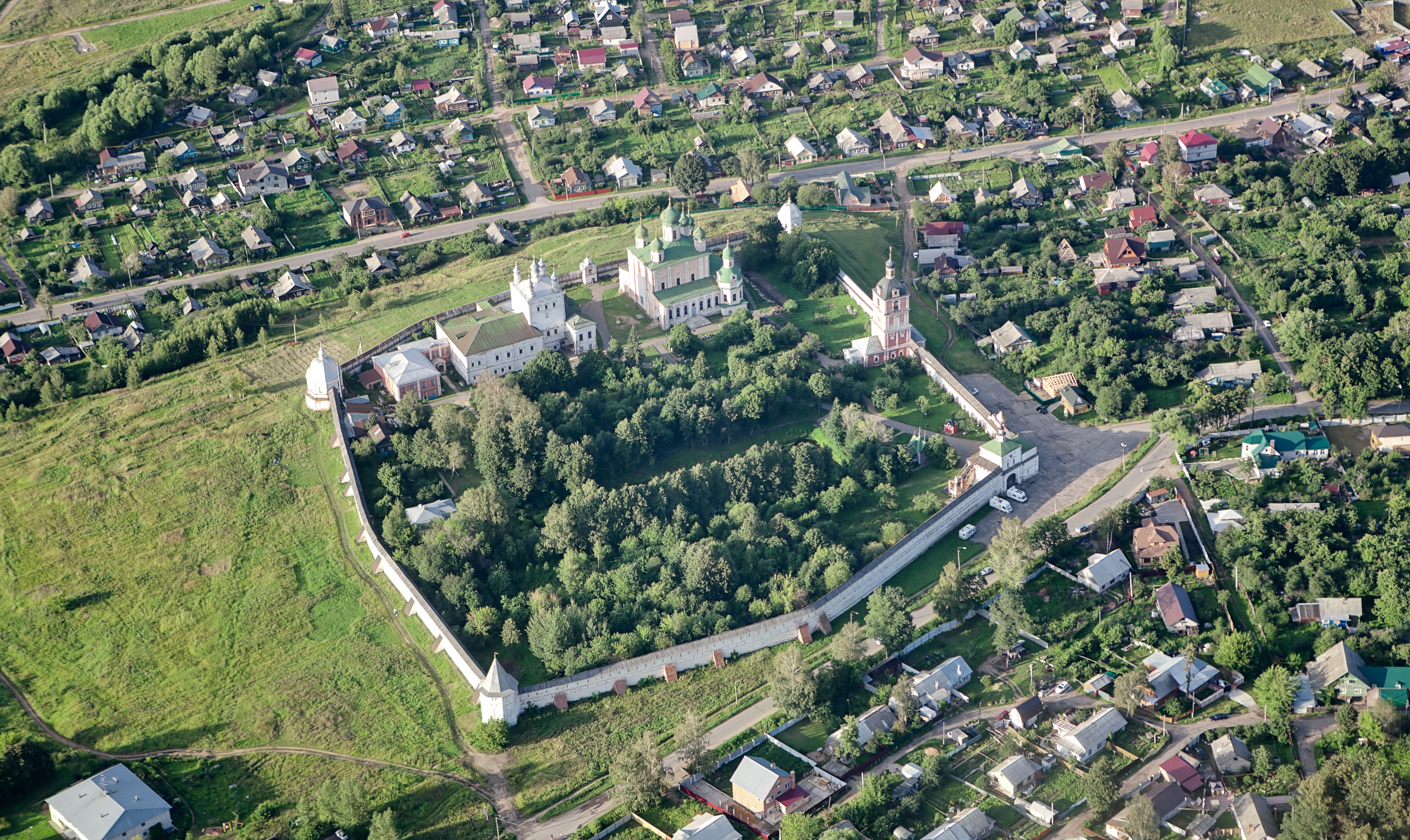 Goritsky monastery. Pereslavl museum-preserve. Aerial photo.